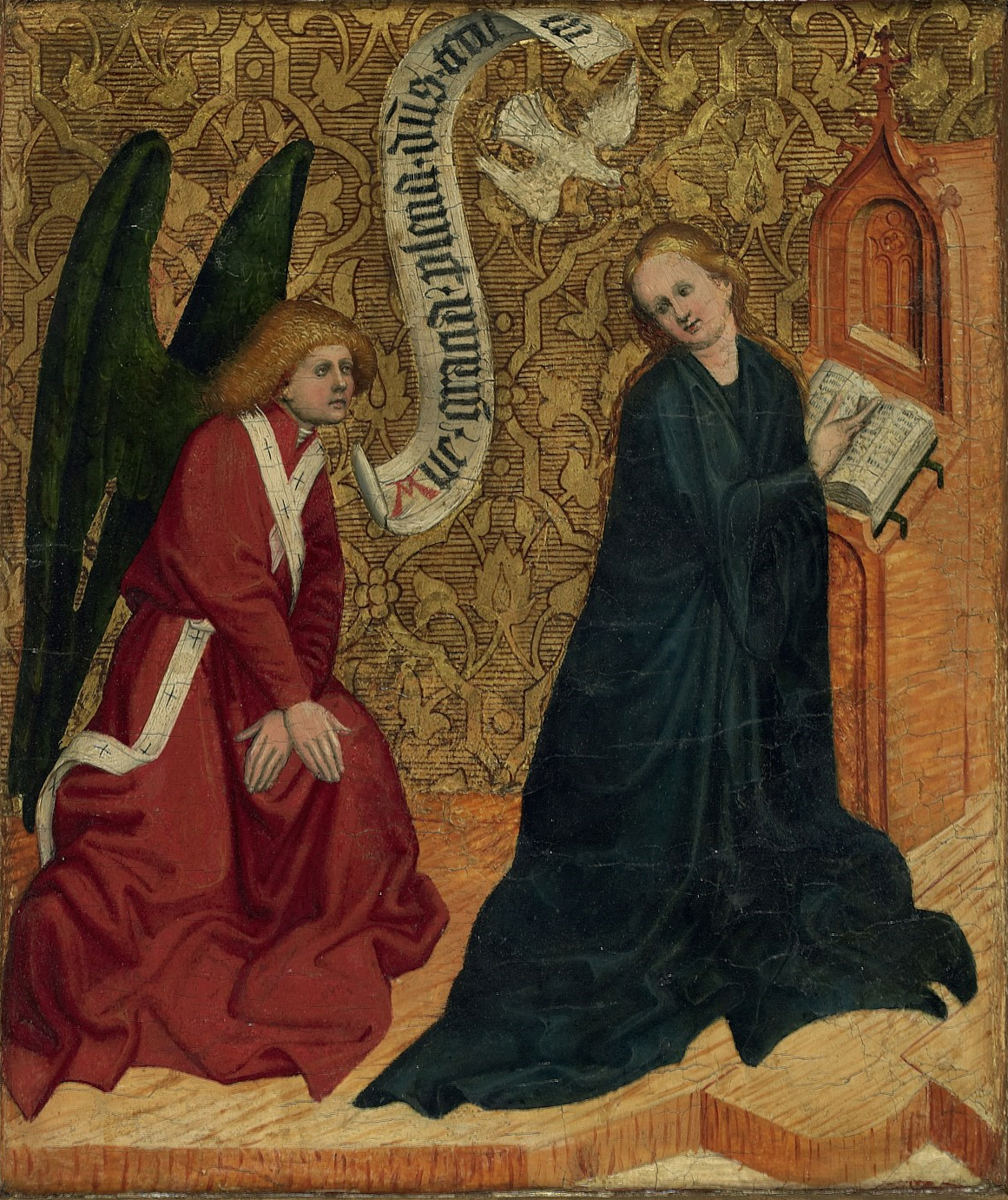 The Annunciation